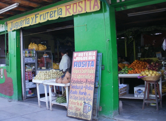 A fruteria with yummy sandwiches open early for breakfast in Nazca, Peru near the main farmers market.